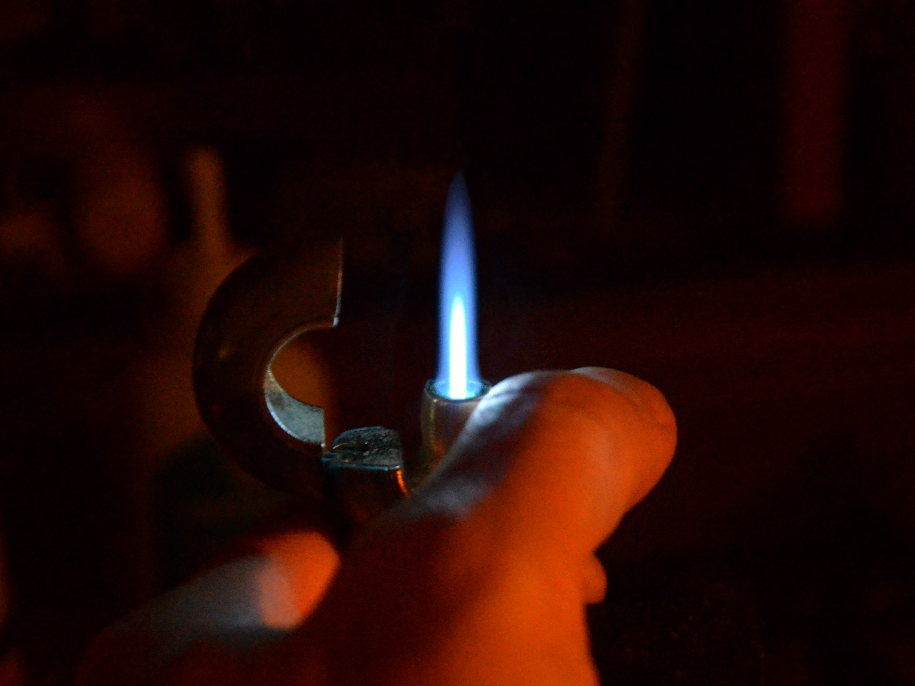 A gas lighter flame